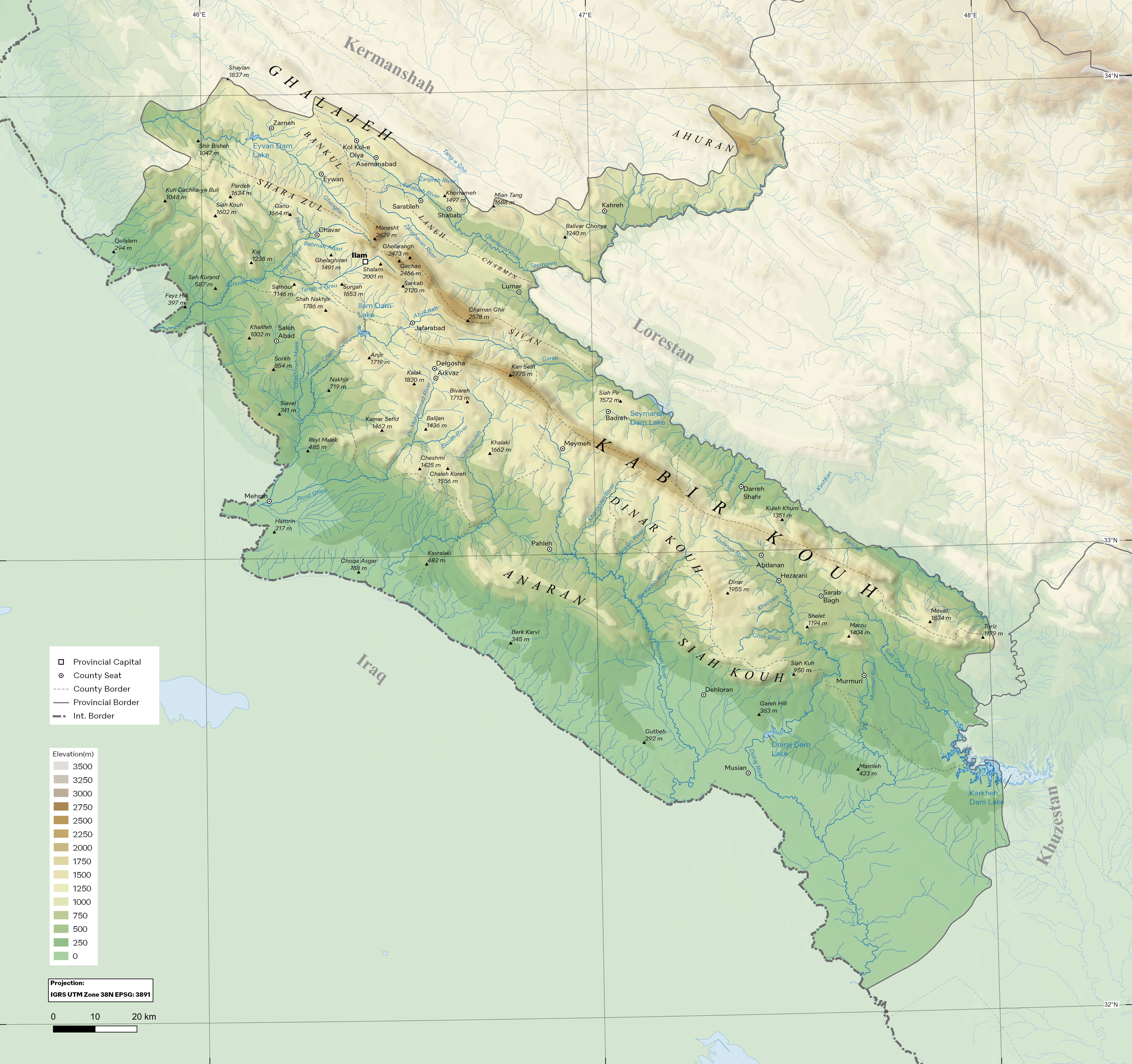 Topographic Map of Ilam Province, Iran showing mountains, rivers and populated places. Projection system: IGRS / UTM zone 38N EPSG: 3891 Created by QGIS and GIMP. Data Sources: Vectors from OpenStreetMap Raster from NASADEM Merged DEM Global 1 Arc Second available at LP DAAC